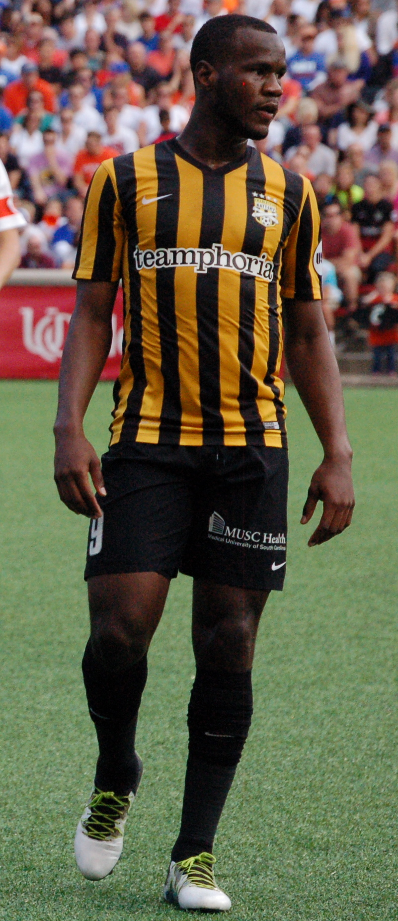 Austin Berry, Romario Williams Taken during a 2016 USL Playoffs Eastern Conference Quarterfinals match between FC Cincinnati and Charleston Battery at Nippert Stadium in Cincinnati on October 2, 2016.